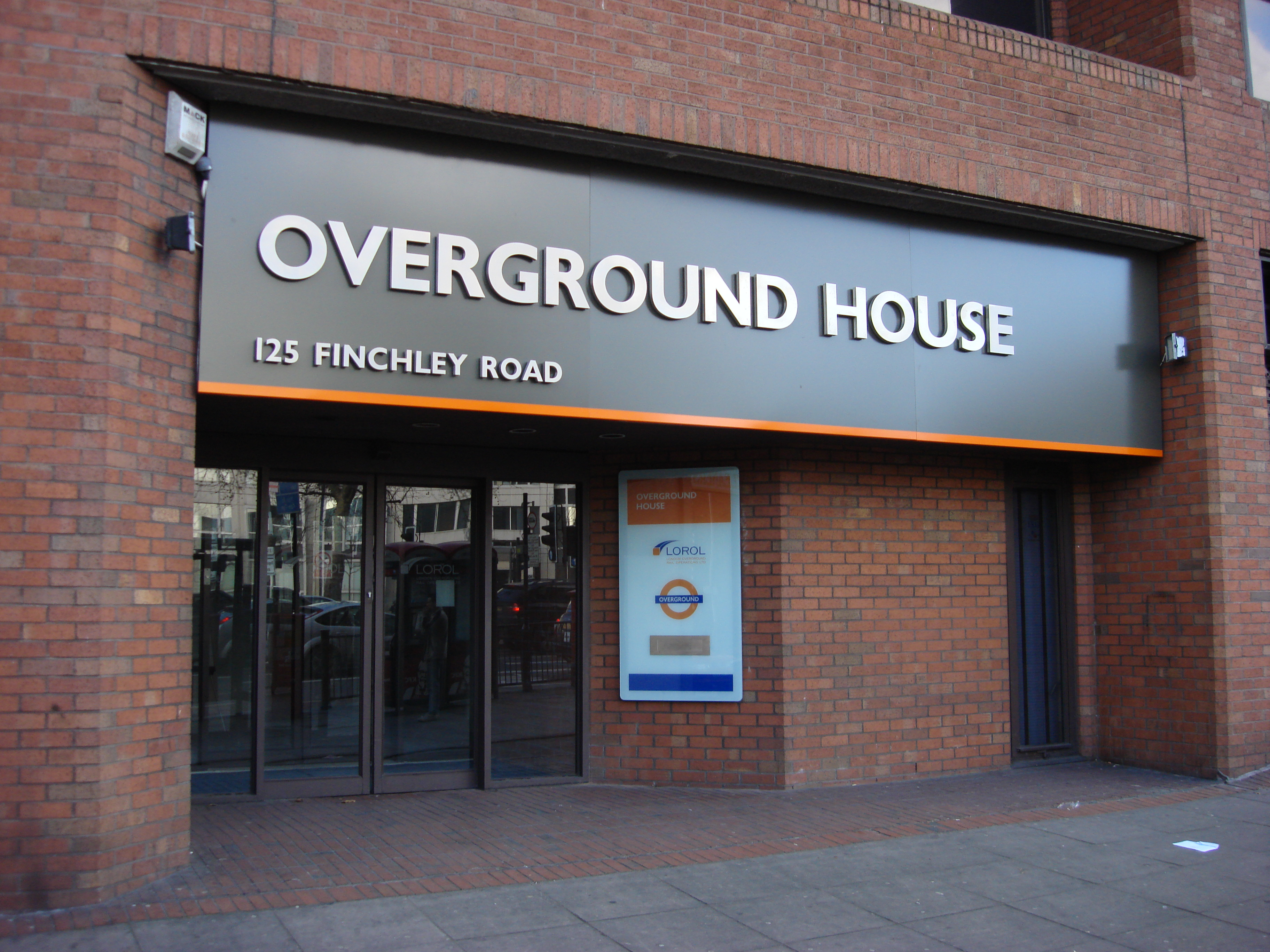 Overground House, 125 Finchley Road